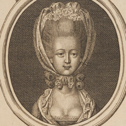 Gertrude Mahon (born Tilson) actress and courtesan in 1781 by published by Archibald Hamilton Jr Part of a double portrait with George Bodens